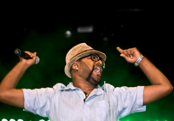 Vocalist Benny Dhayal at a concert.